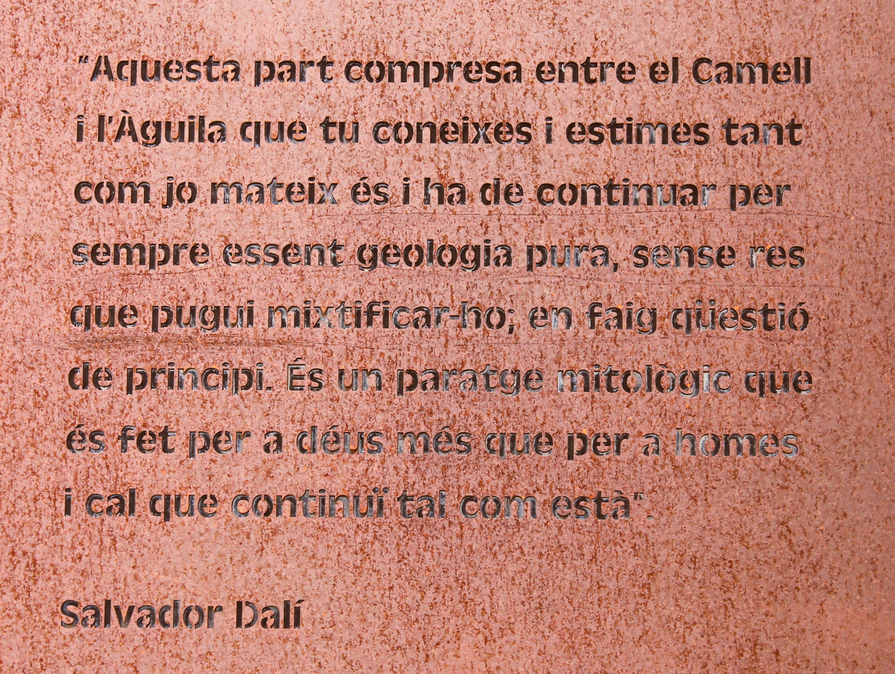 “Aquesta part compresa entre el Camell i l’Àguila que tu coneixes i estimes tant com jo mateix és i ha de continuar per sempre essent geologia pura, sense res que pugui mixtificar-ho; en faig qüestió de principi. És un paratge mitològic que és fet per a déus més que per a homes i cal que continuï tal com està.” This part between the Camel and the Eagle, that you know and love as much as I do, is and should continue to be pure geology forever, without anything that can cause damage to it; I do state it. It is a mythological place made for the gods more than for men and it should continue as is. Salvador Dalí, artist, 1961